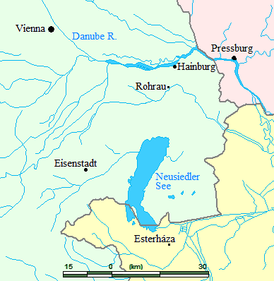 Digital image made by Opus33 using Microsoft Paint. National boundaries and bodies of water from public-domain source (DEMIS